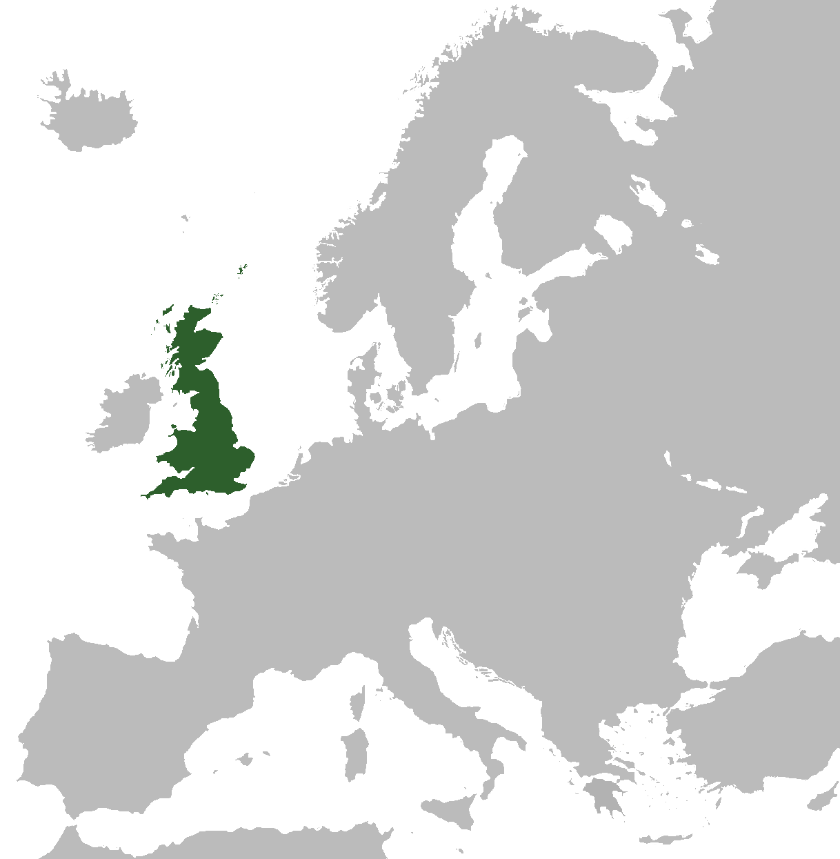 Territory of the Kingdom of Great Britain